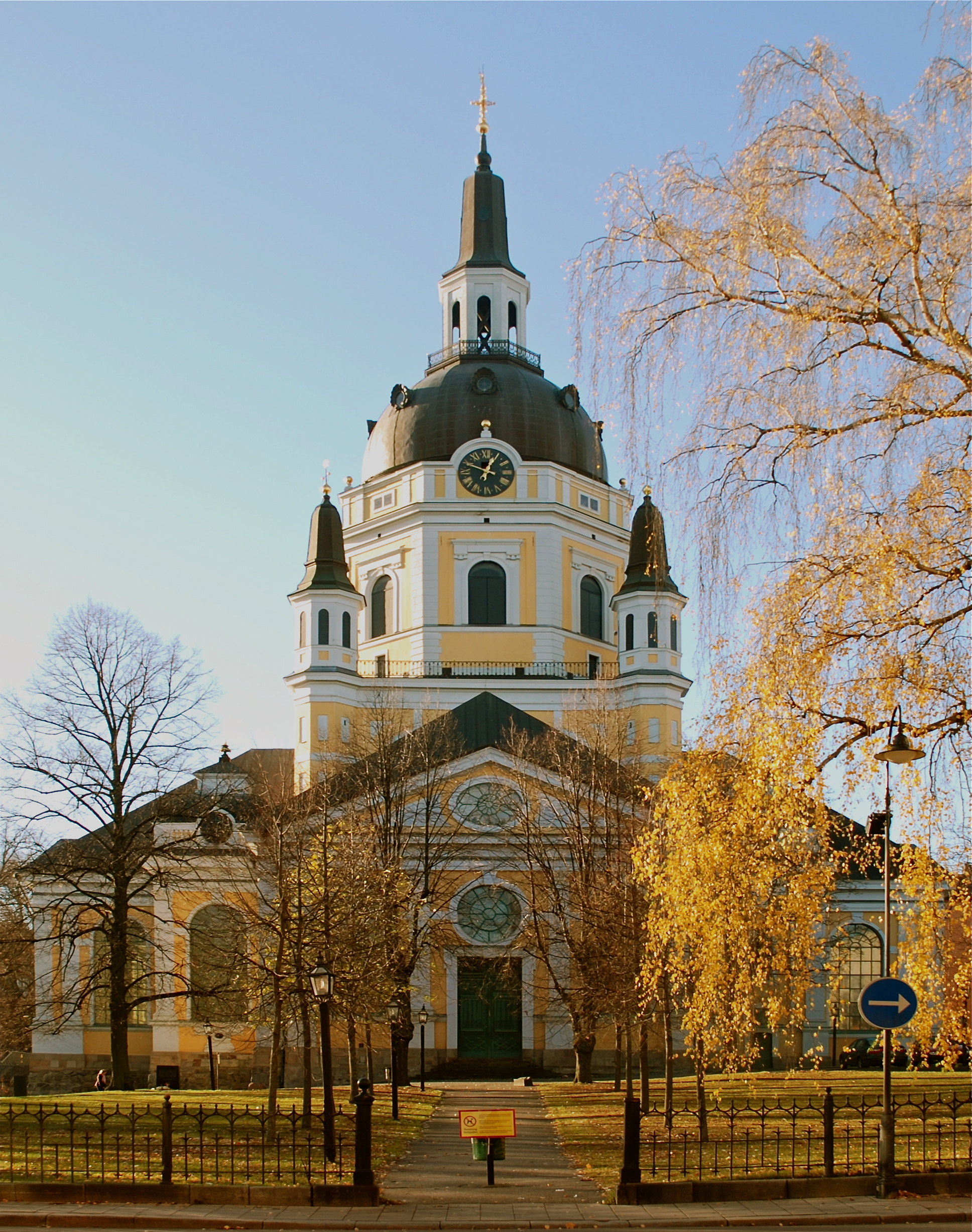 Katarina kyrka.